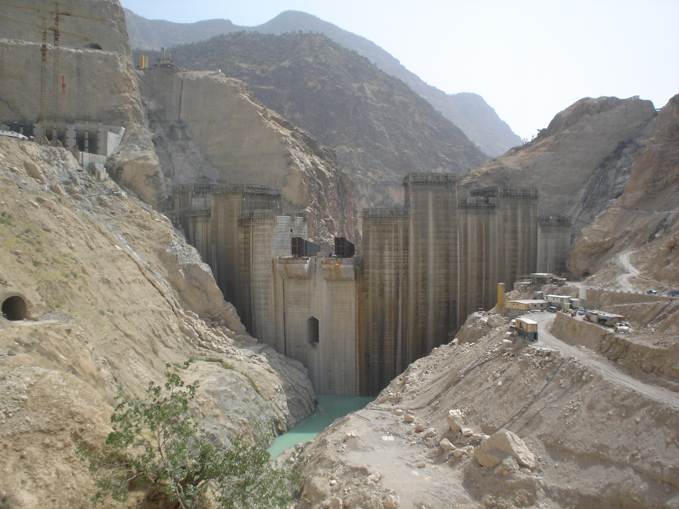 Karun-4 Dam, Chahar Mahaal o Bakhtiari Province, Iran. (Under Construction)